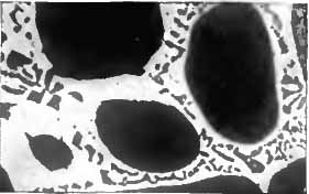 Photomicrograph of silver-copper alloy.